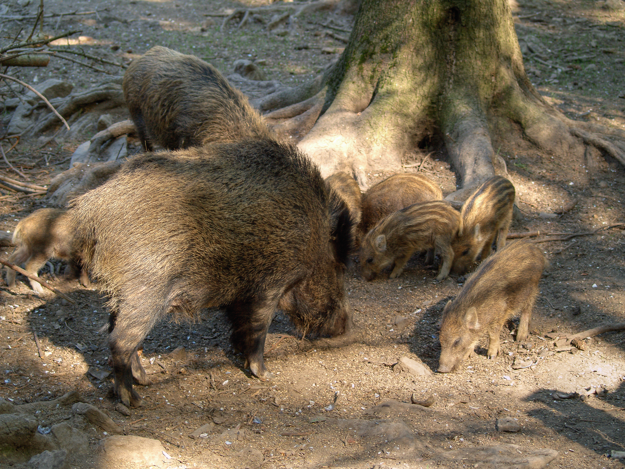 Wild Boar (Sus scrofa), sounder, consisting of a sow, her piglets and a female from her previous year offspring; Chemnitz, Germany